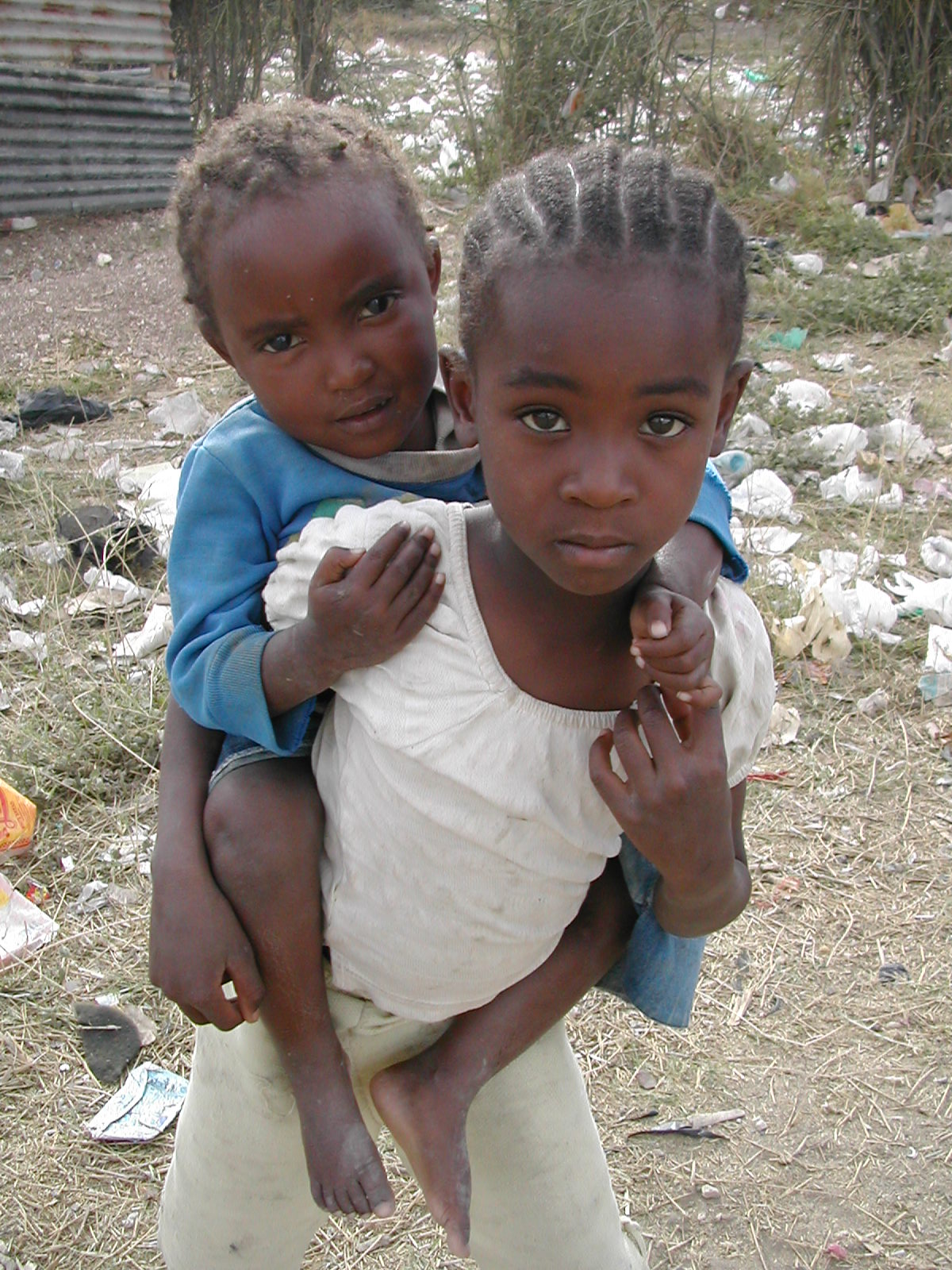 on my first visit in 2004